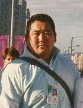 Hitoshi Saito at Seoul Olympic Games (September 26, 1988)